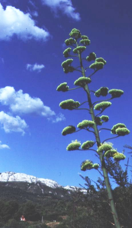 Agave_americana in flower (Roquevaire, Bouches-du-Rhône, France, September 1978). Picture taken by my father, Raymond Forget. Previously at